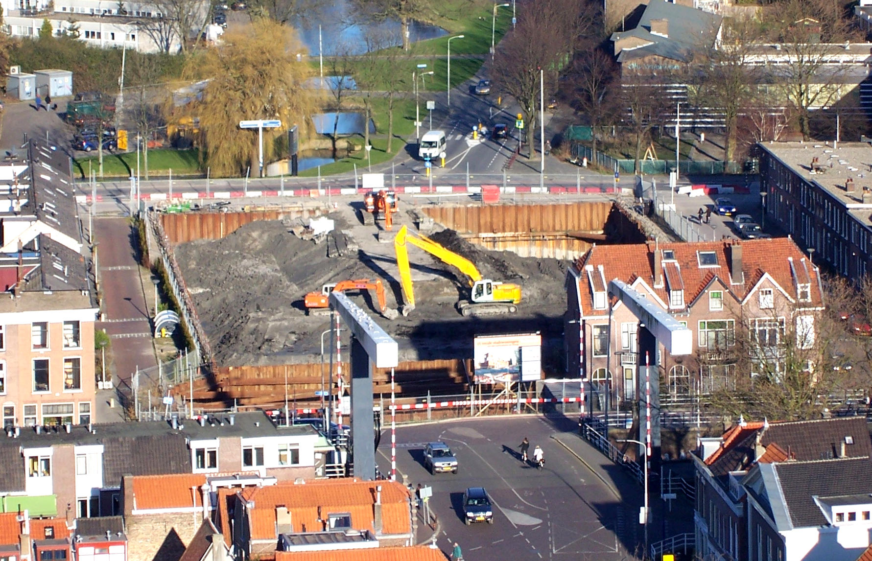 The Koepoortgarage from the New Church in Delft